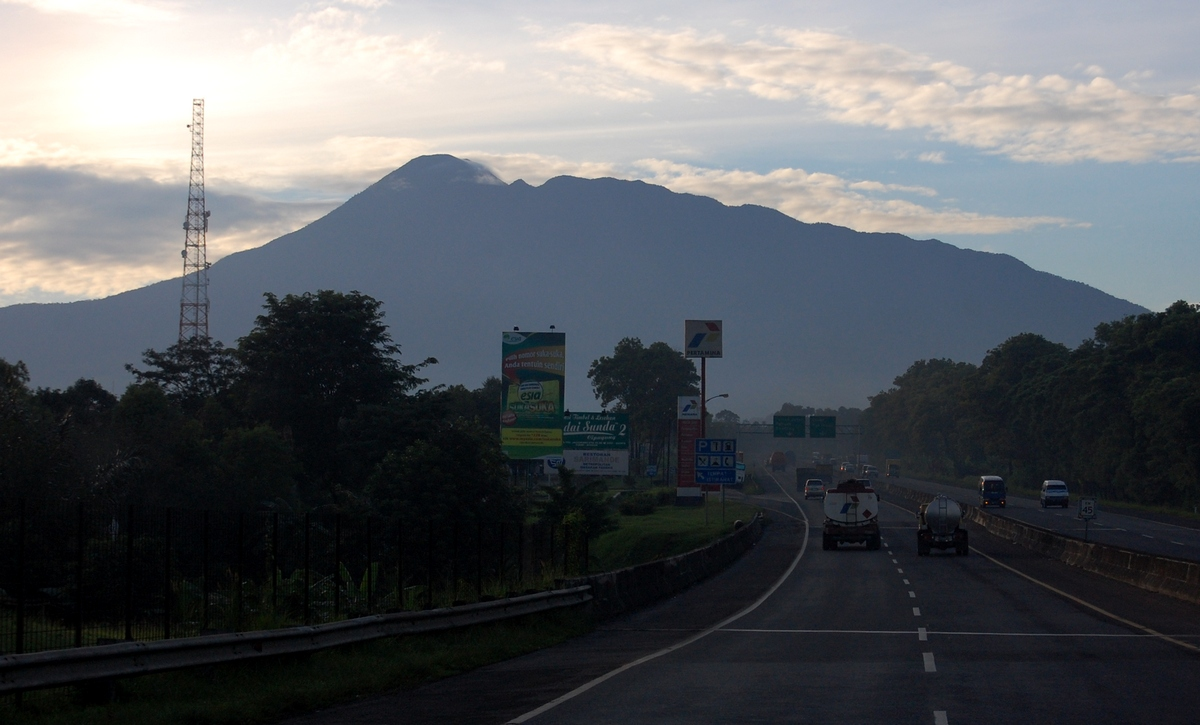 Mount Pangrango (the highest peak), Gede, and surroundings. Photographed from Ciawi, Bogor.